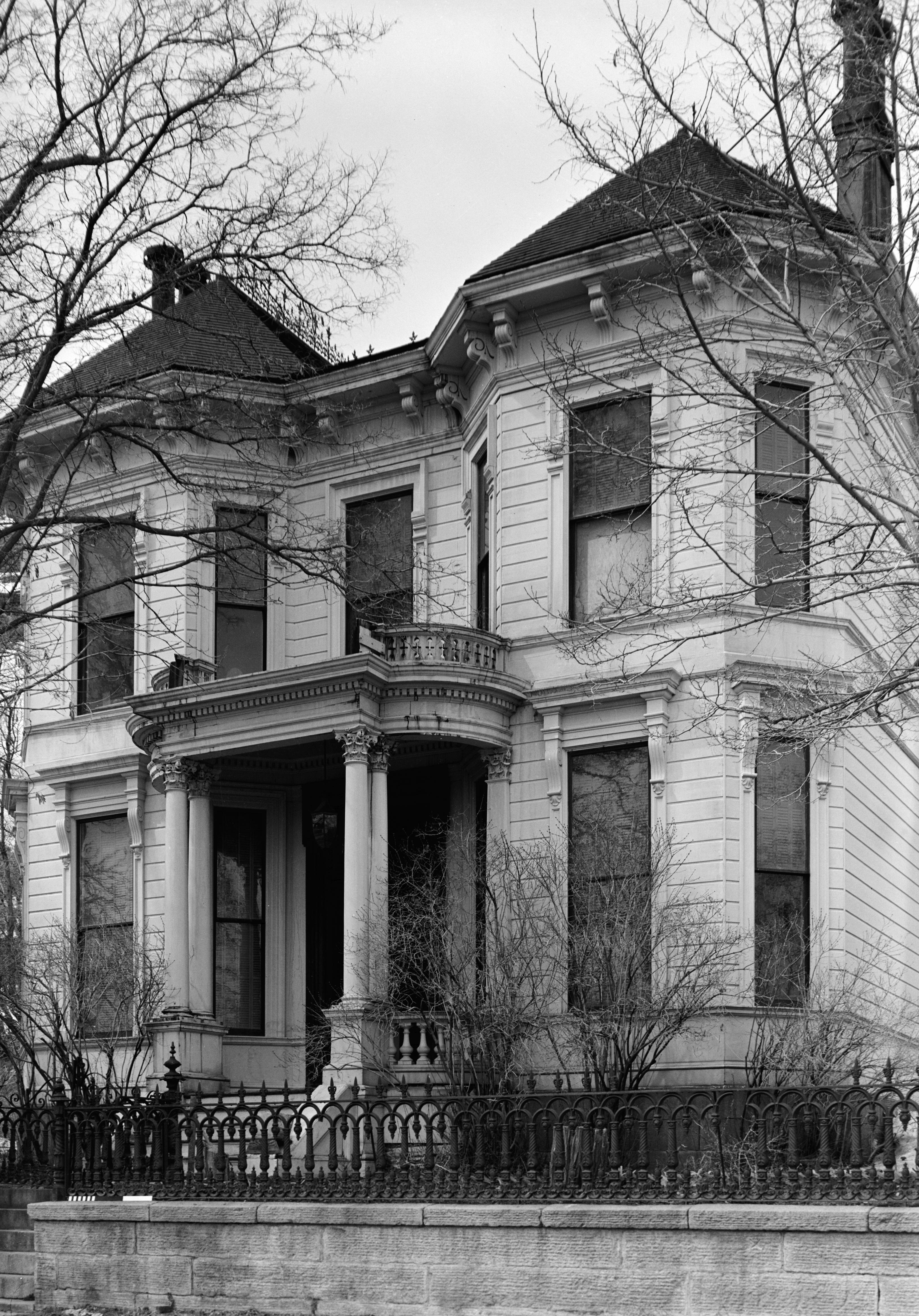 Front of the King-McBride Mansion, located at 26-28 S. Howard Street in Virginia City, Nevada, United States. Built in 1876, it is listed on the National Register of Historic Places and is part of the Virginia City Historic District, a National Historic Landmark. 1937 image: HABS—Historic American Buildings Survey of Nevada.